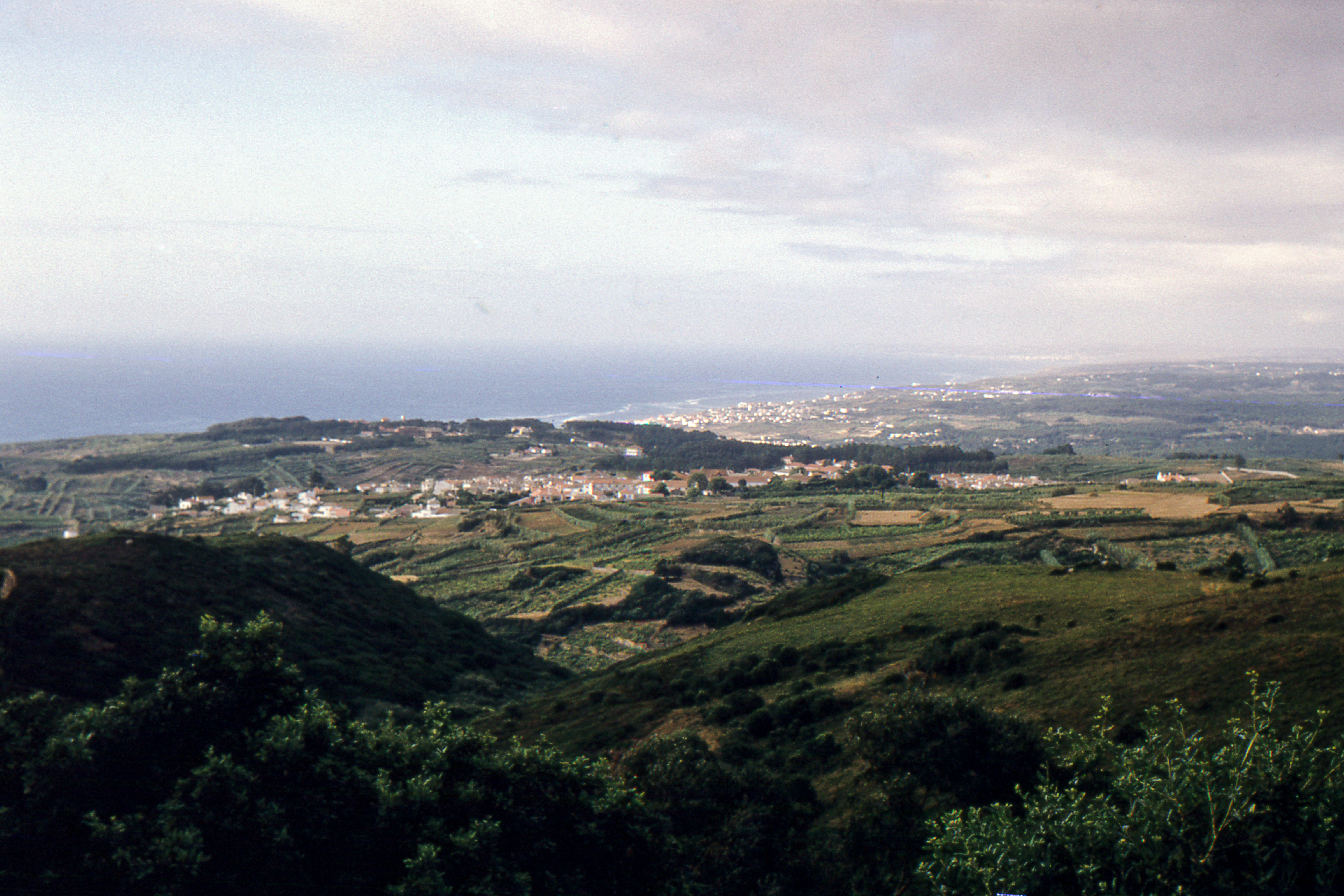 View of the plain towards Colares and Praia of Maças.